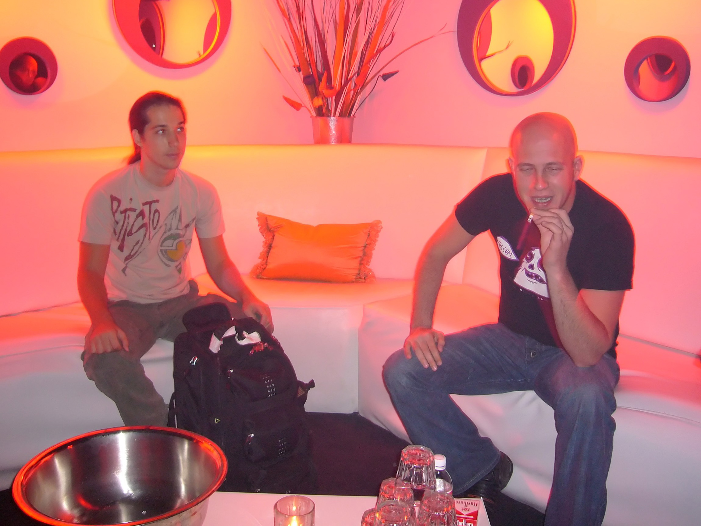 Infected Mushroom in August 2006